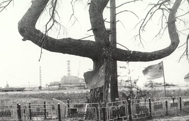 The "partisan's tree" or "cross tree" near to the Chernobyl Nuclear Power Plant. It was used by Nazi's as a place to hang people. It is now replaced by a memorial.